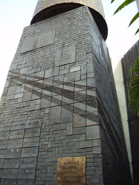 14 October 1973 Memorial, Ratchadamnern road, Bangkok, Thailand